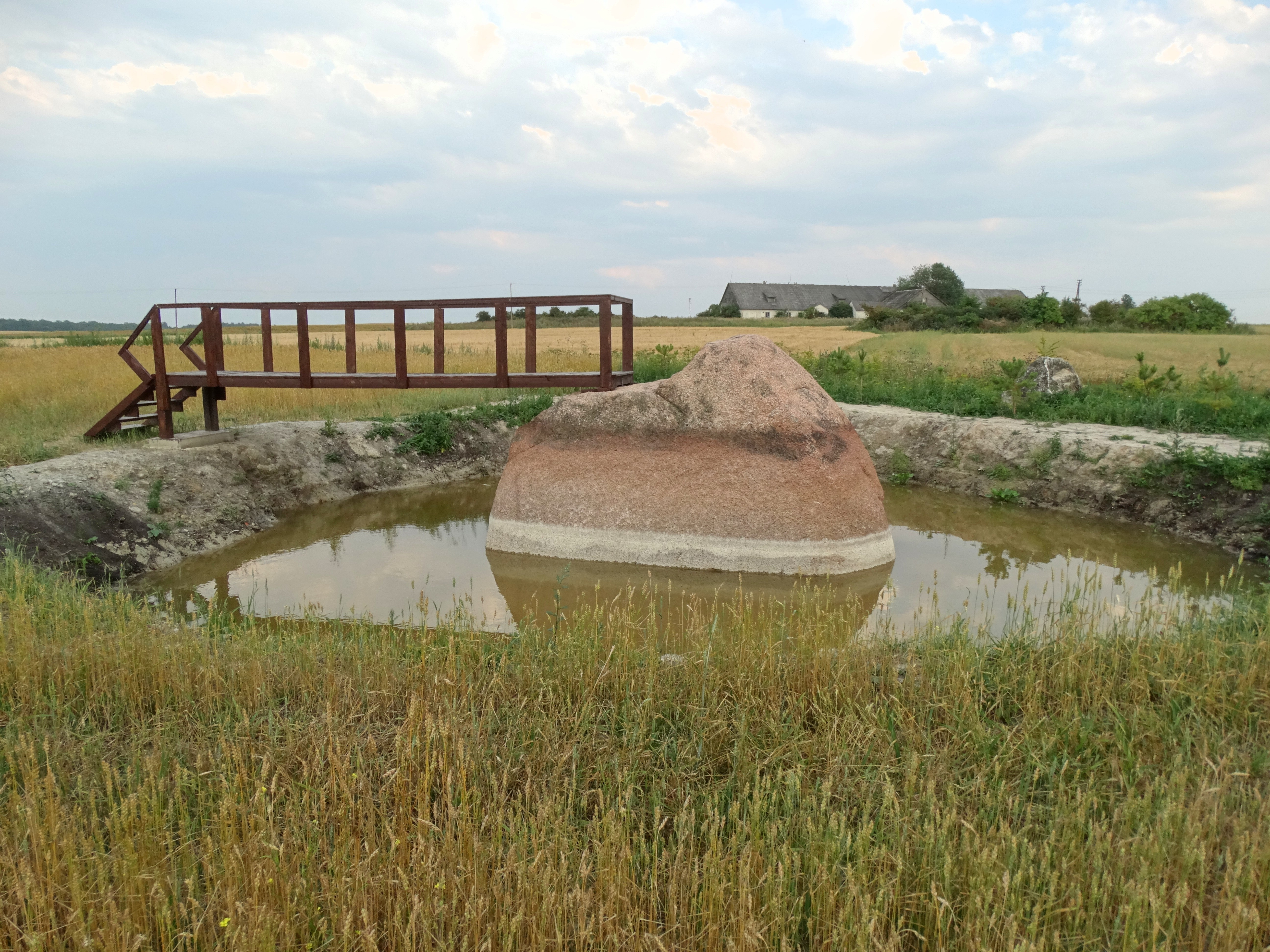 Stone in Veršiai, Joniškis District, Lithuania